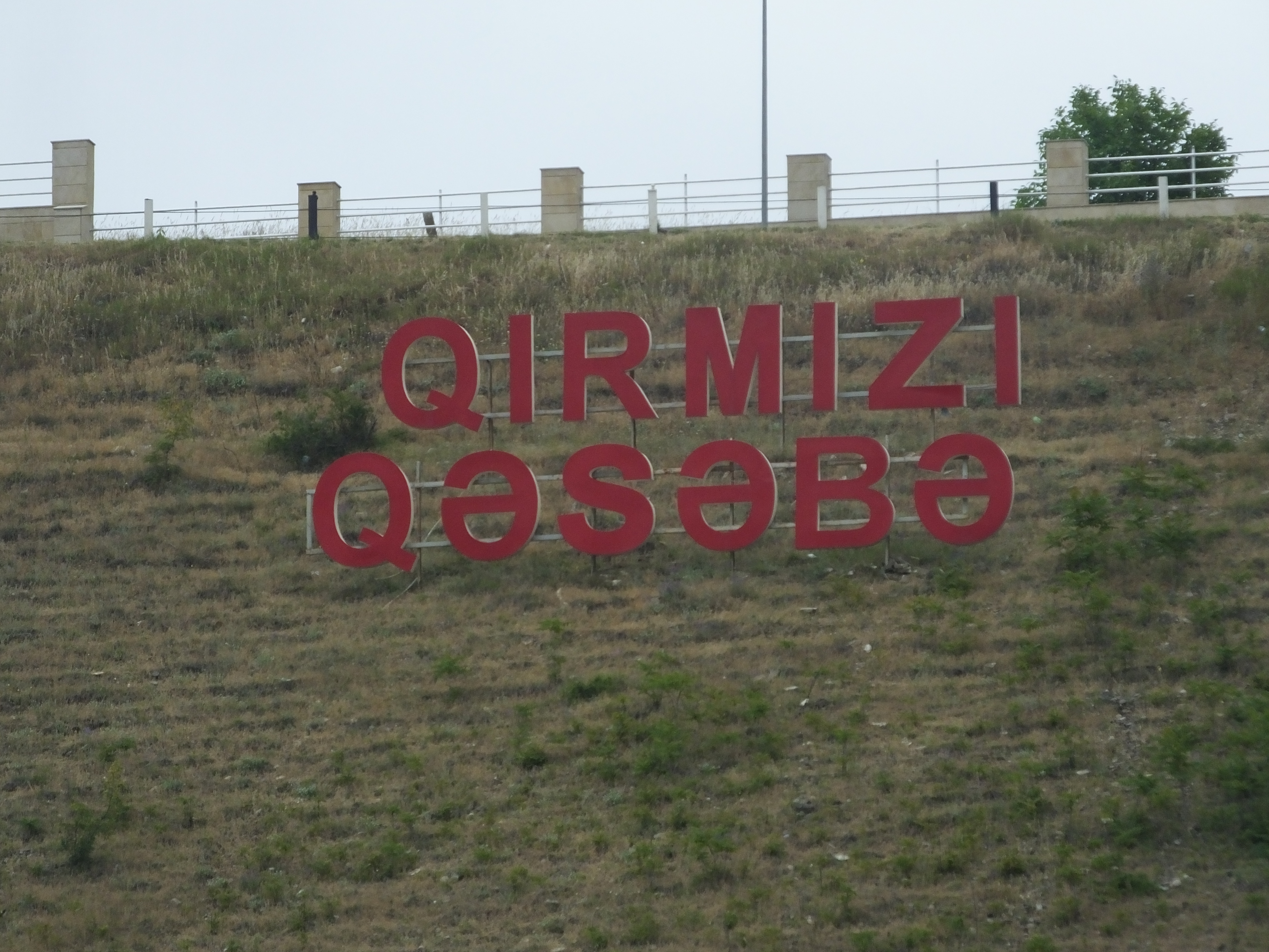 A picture of Qırmızı Qəsəbə Sign taken by Aykhan Zayedzadeh for 2018 Spring WikiCamp Azerbaijan